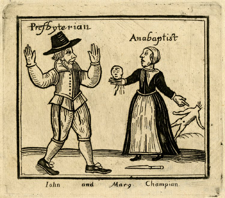 painting/drawing from the British Museum. John and Mary Champion